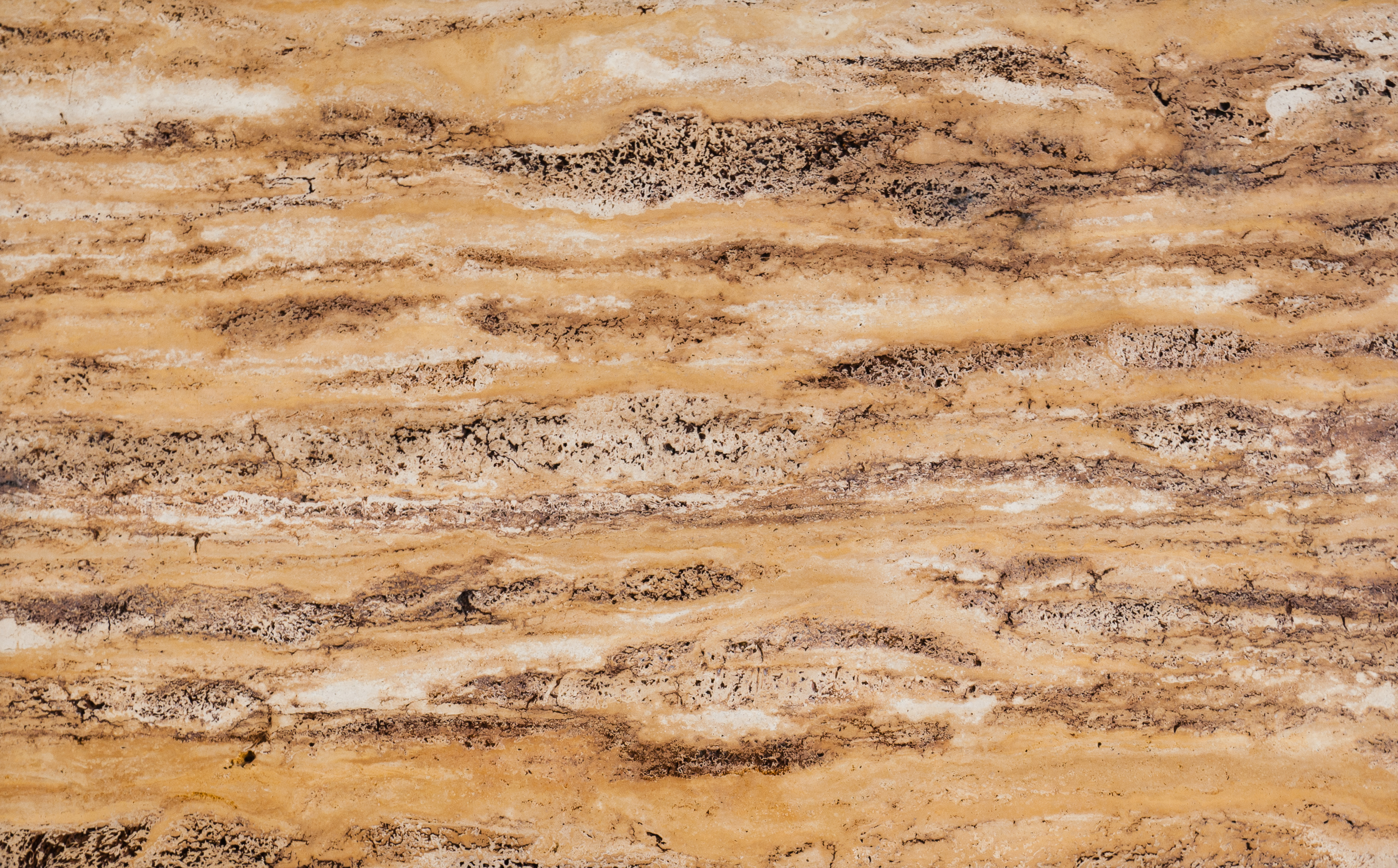 Travertine on a building façade in Stuttgart, Germany.